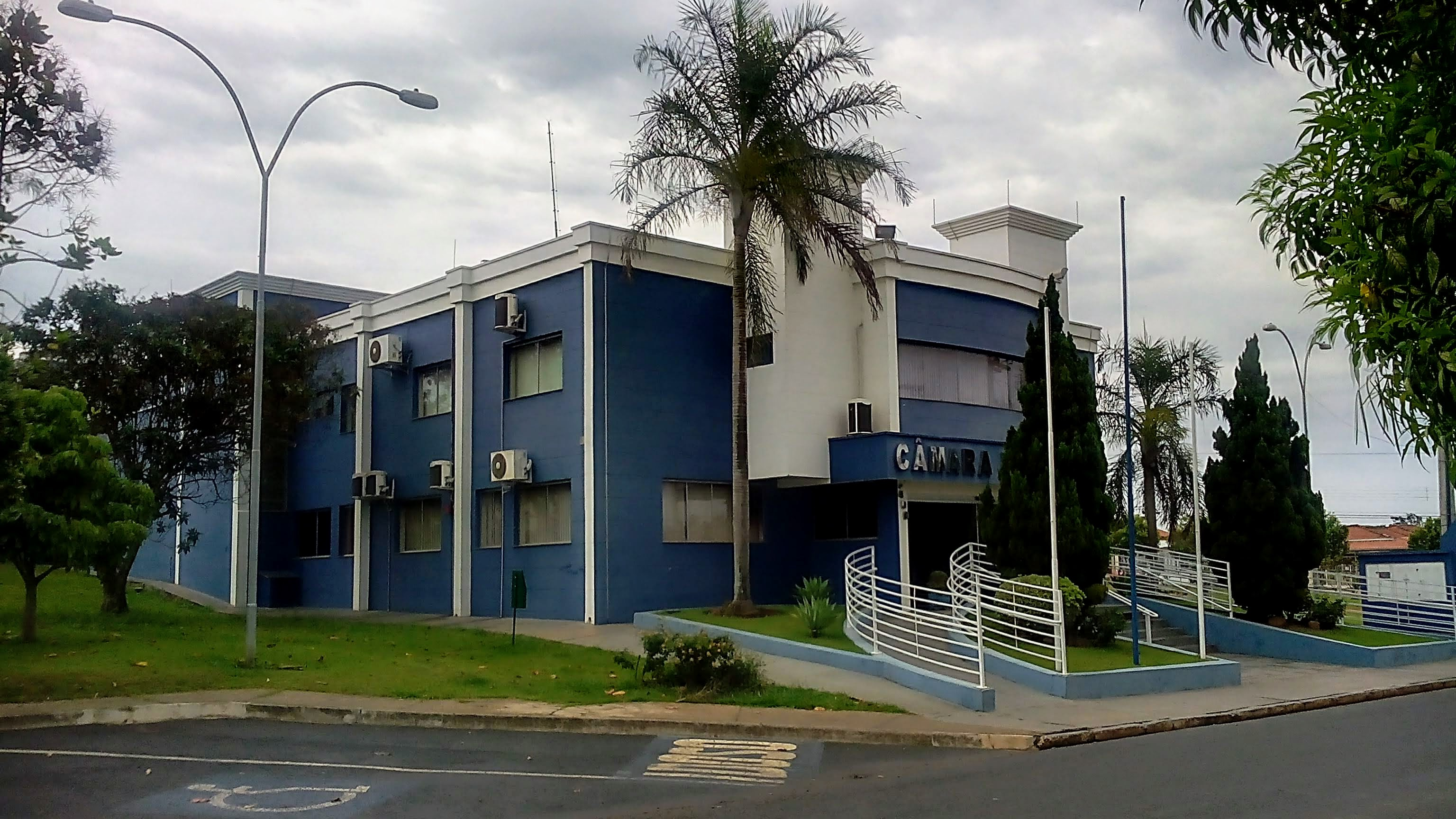 Laranjal Paulista town council.